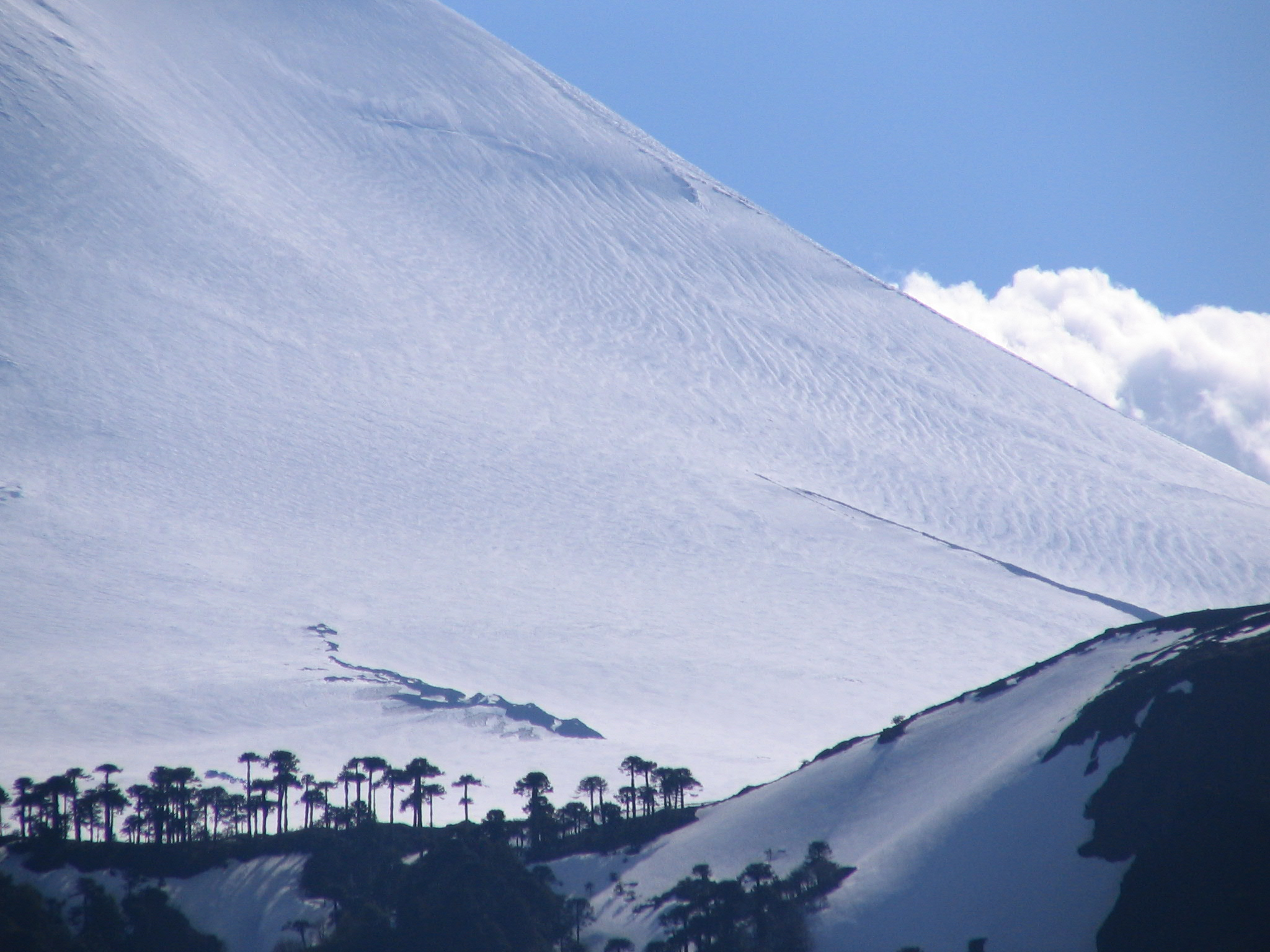 Araucaria araucana (Monkey-puzzle, Pehuén) on the slopes of Volcan Llaima, Parque Nacional Conguillio, Chile. Photographer: William S. Kessler (uploader) Date: 15 October 2005